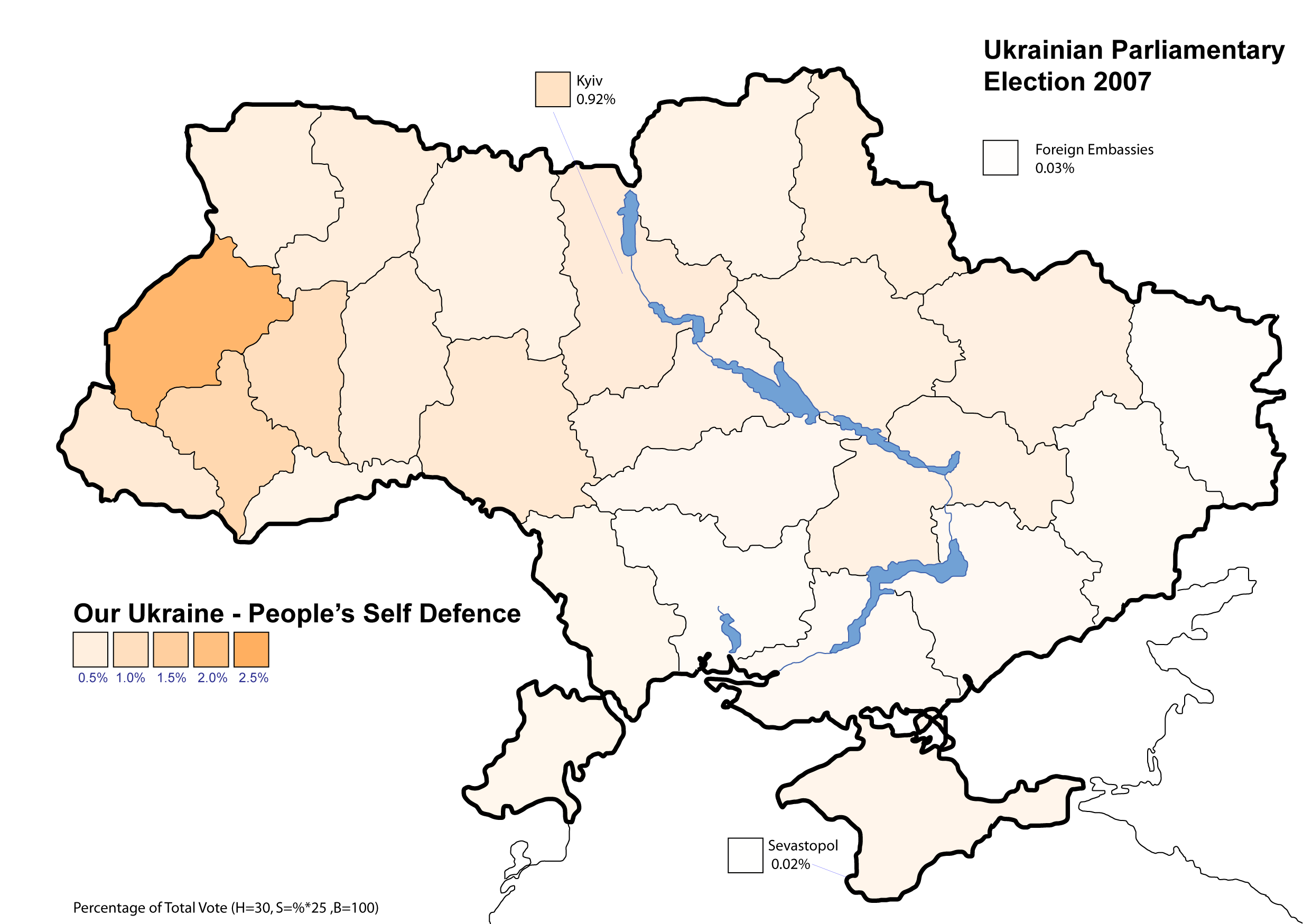 Ukrainian Parliamentary Election 2007 (OU-PSD) Percentage of total national vote (minimal text)